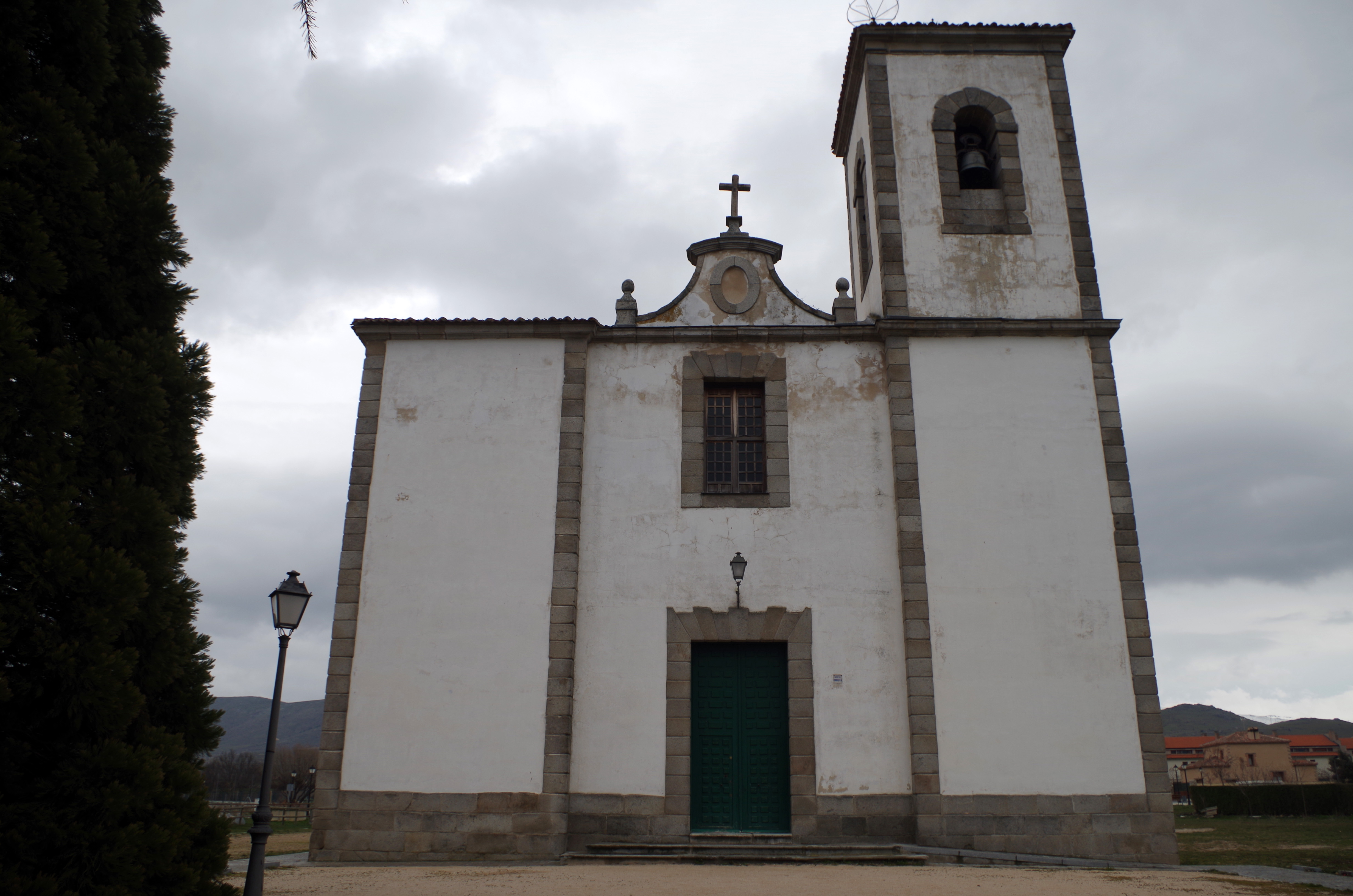 Church in Trescasas (Segovia, Spain).